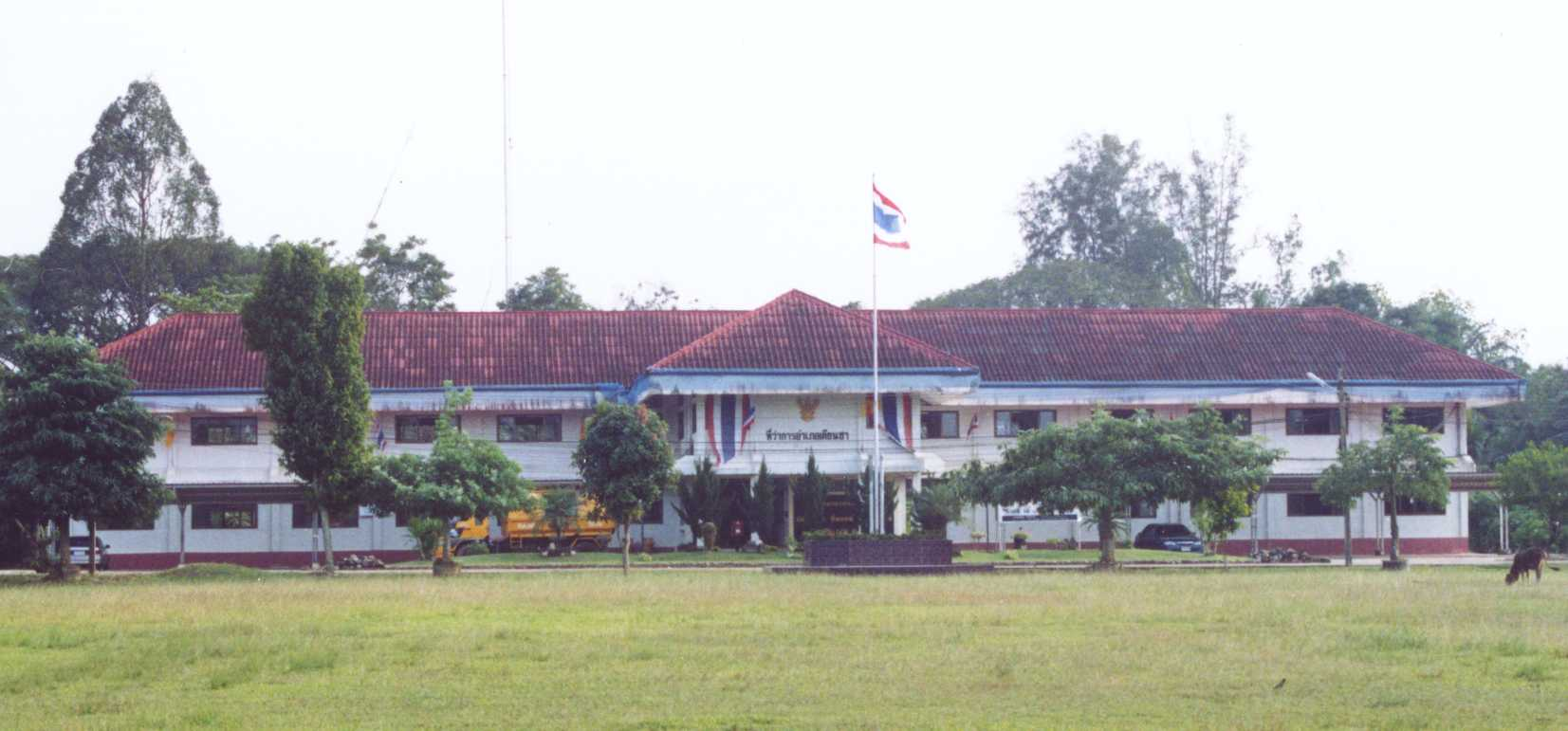 District office of Khian Sa district, Surat Thani Province, Thailand. Photo taken by User:Ahoerstemeier taken on January 26 2006.